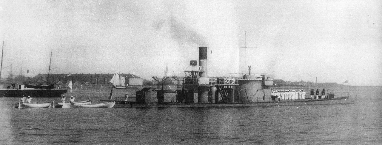 Imperial Russian turret armour-clad boat Koldun.